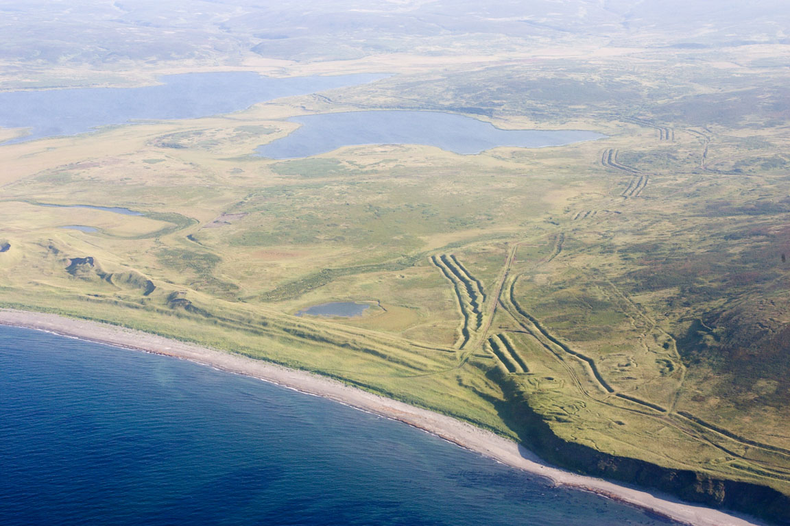 Shumshu island near Baikovo. Bitobi lake (old hydroplane airport). And tank defence around the island.